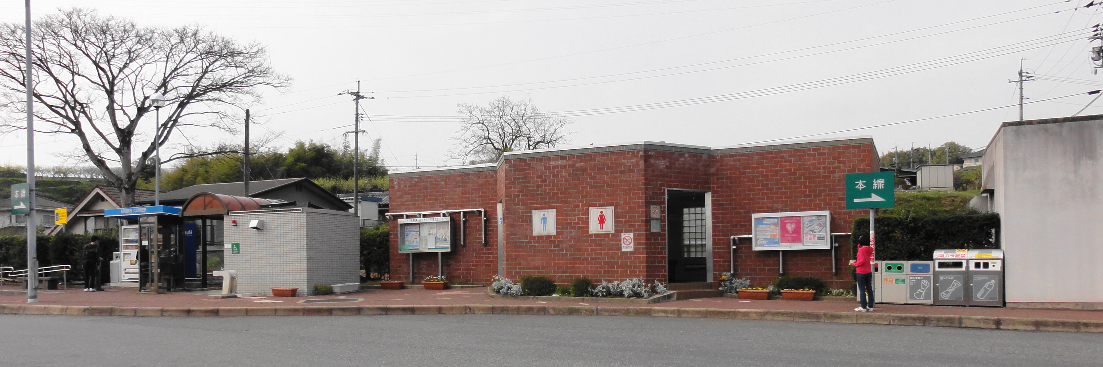 Ninomiya Parking Area,Okayama prefecture,Japan